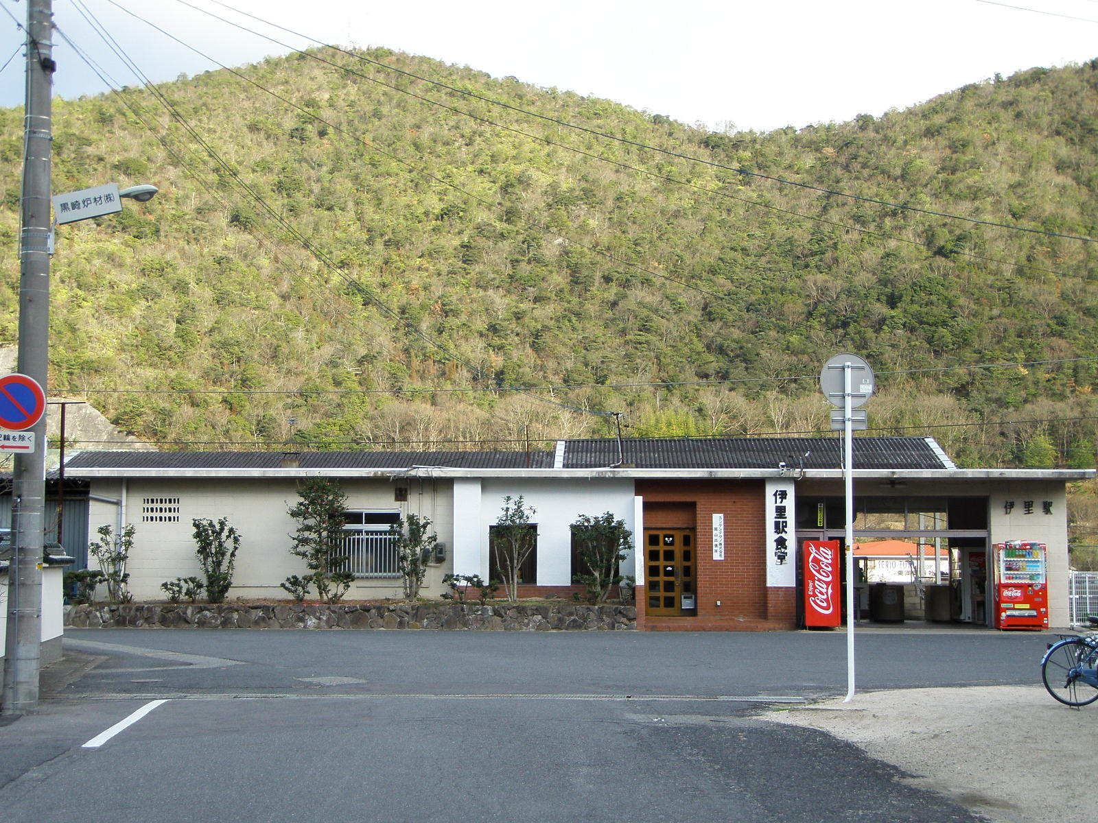 West Japan Railway Ako Line Iri Station Building